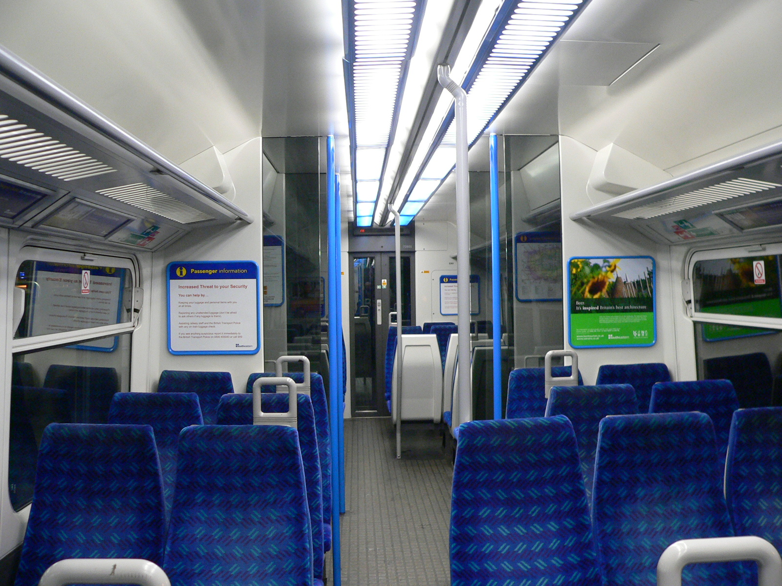 The interior of South Eastern Trains Class 465 electric multiple unit number 465244, photographed at Beckenham Junction station on 24 October 2005